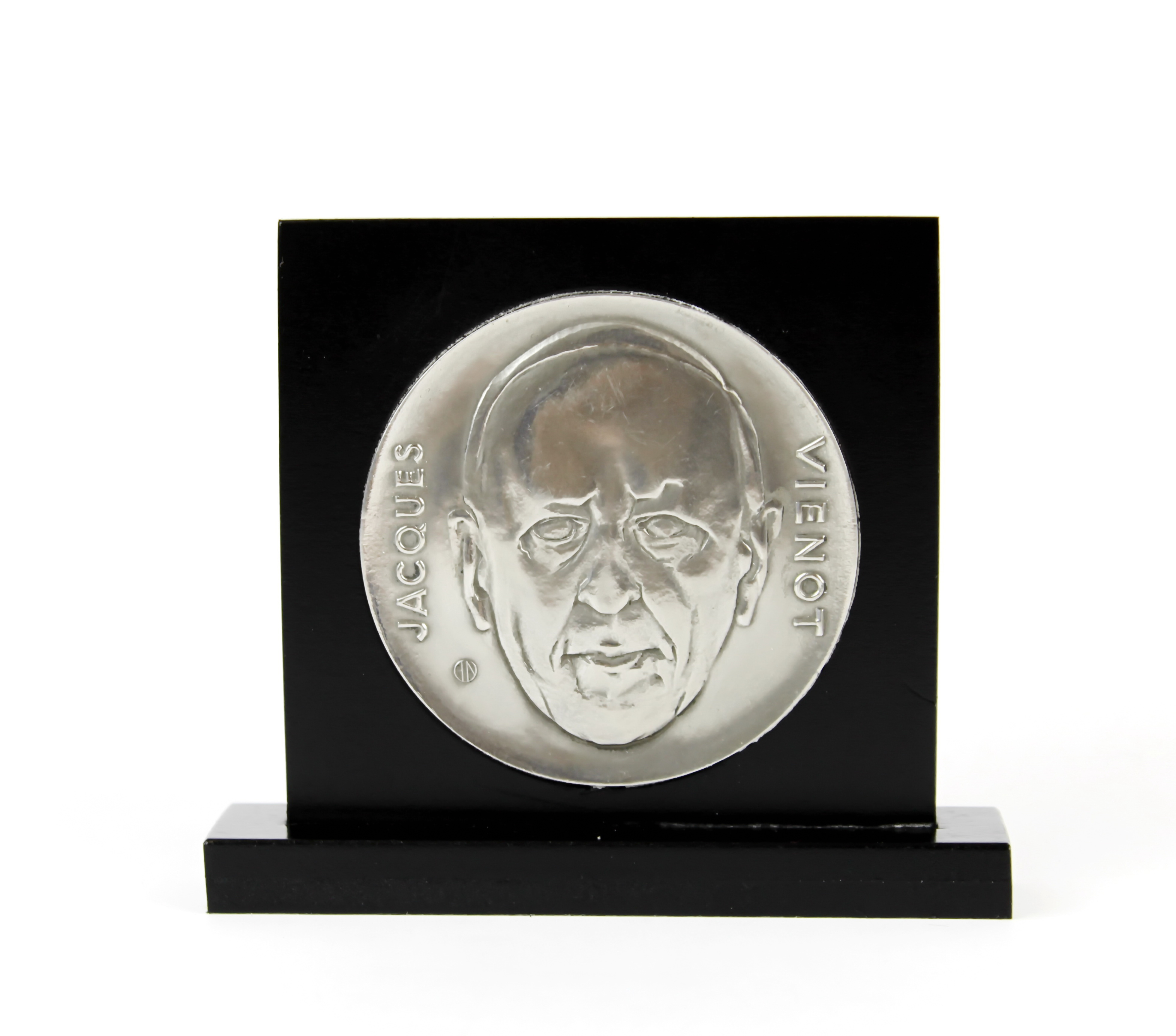 The plaque Jacques Viénot with which Gojko Varda was awarded in 1963 at the exhibition in Paris for the design of the wall clock INSA